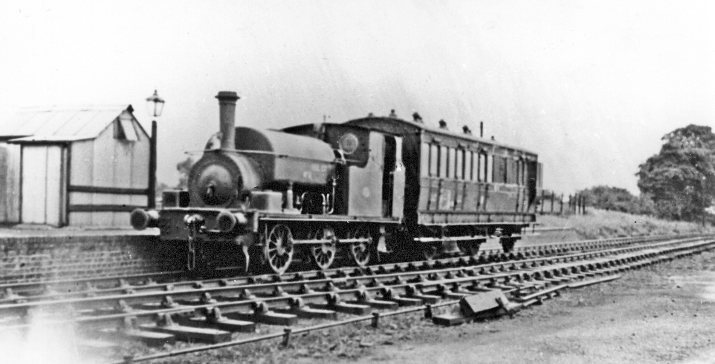 One-coach train from Alne at Easingwold, 1946The buffers are off frame to the left. This was the terminus of the independent Easingwold Light Railway from Alne, which survived until 29/11/48 for passengers, 30/12/57 for goods. The locomotive is No.2, built Hudswell-Clarke 1903, rebuilt 1924, withdrawn 1947.